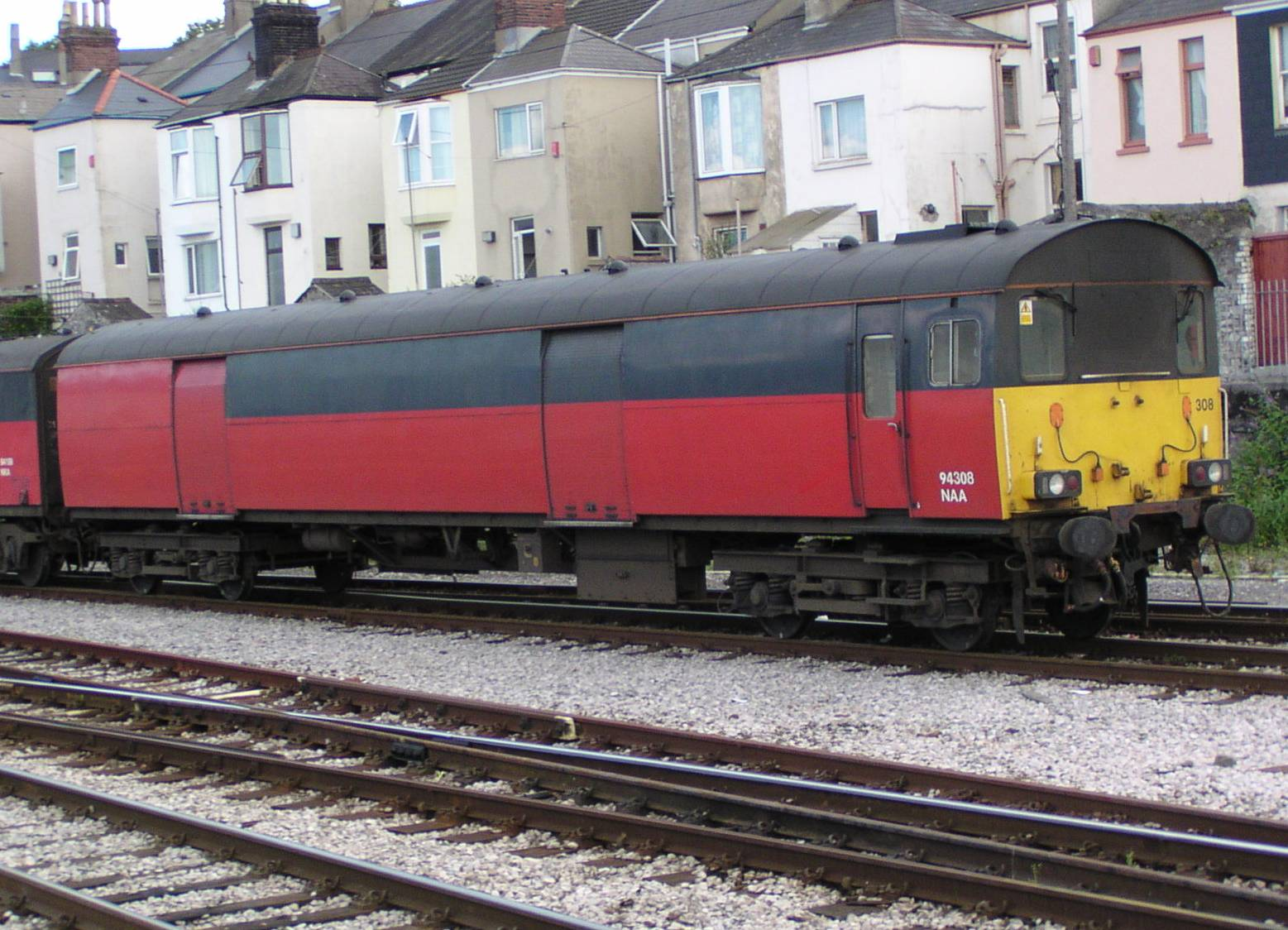 British Rail Propelling Control Vehicle, NAA 94308 propelling a train into Plymouth station on 29th August 2003. This vehicle is painted in unbranded Rail Express Systems livery. Image by Phil Scott (Our Phellap)